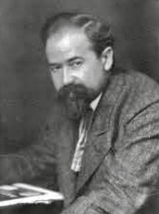 Alfred Weber (1868–1958), German sociologist and economist